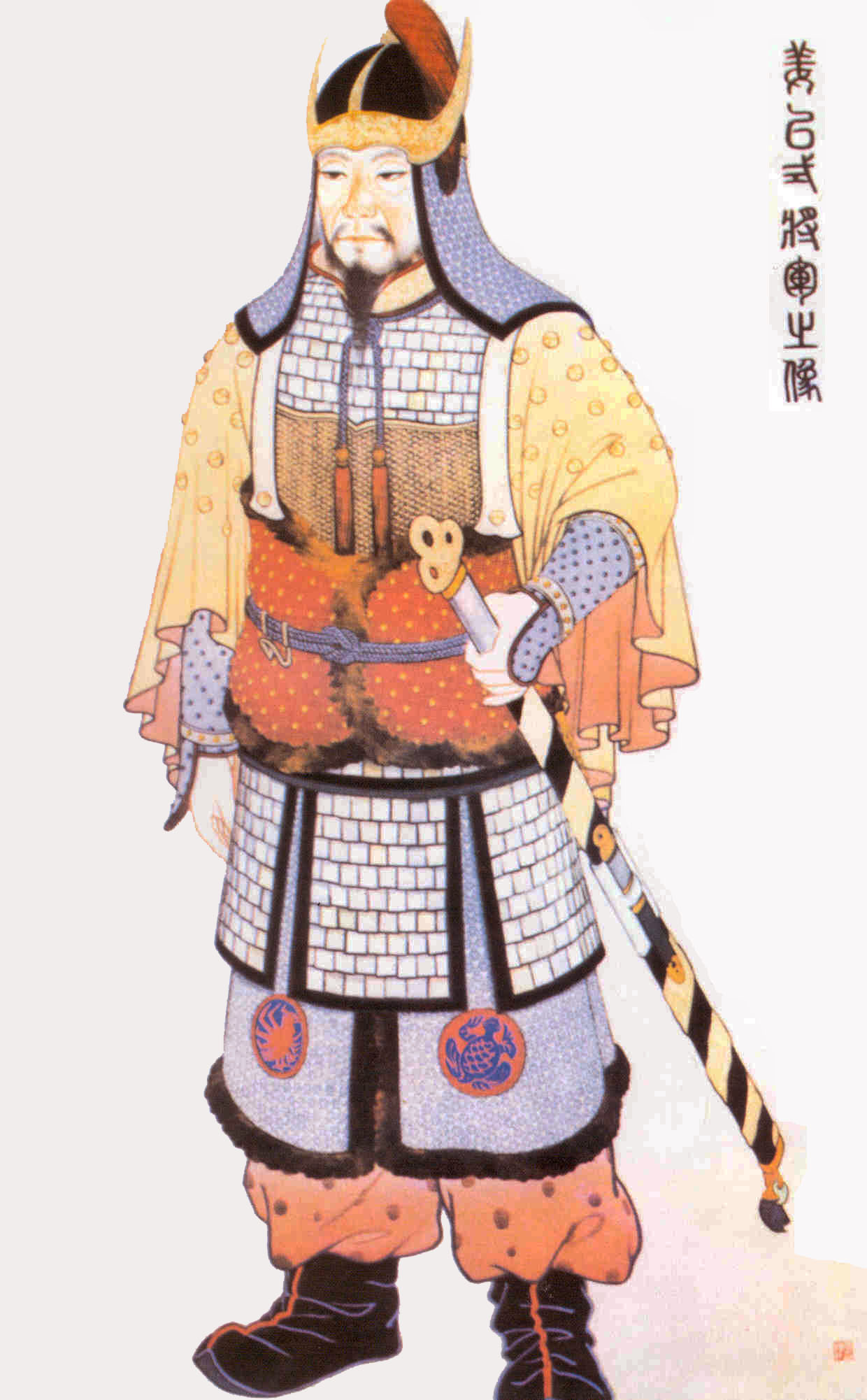 Gneral Kang Yi-sik, Goguryeo under reign of King Pyeongwon